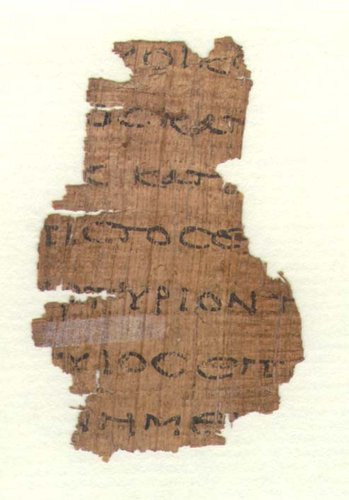 Papyrus 116 V